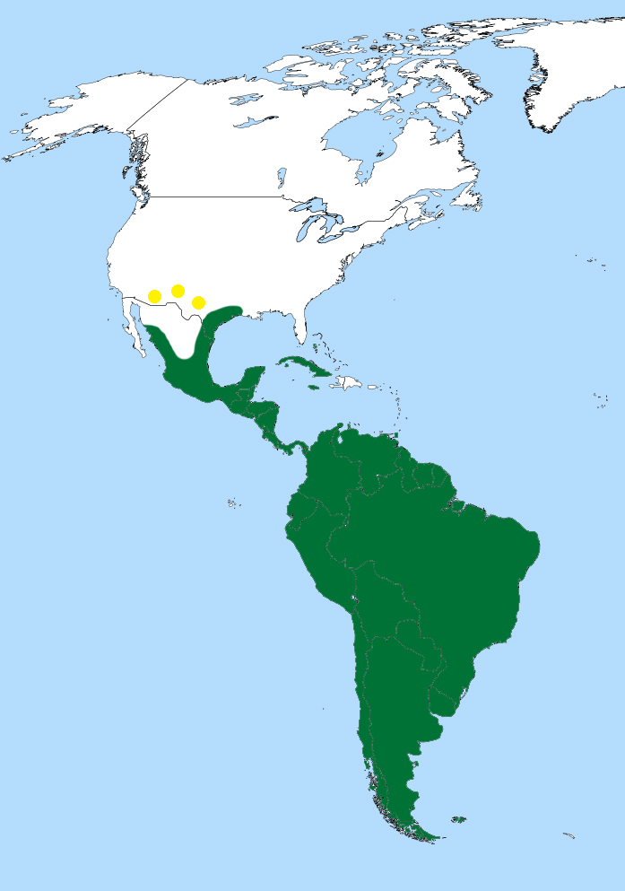 Range map for Phalacrocorax brasilianus